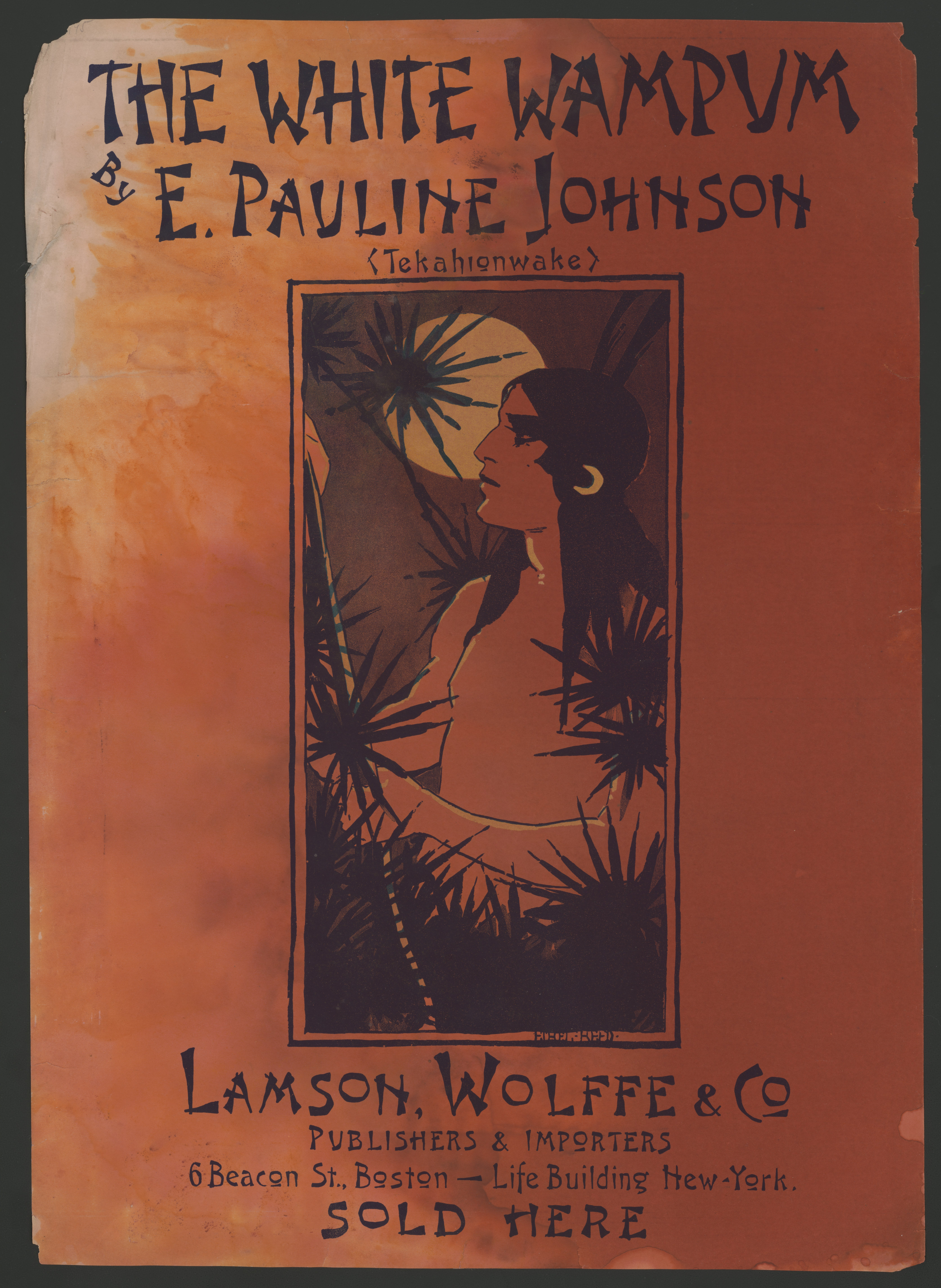 Title: The white wampum by E. Pauline Johnson Abstract/medium: 1 print : color lithograph ; sheet 40 x 56 cm (poster format)